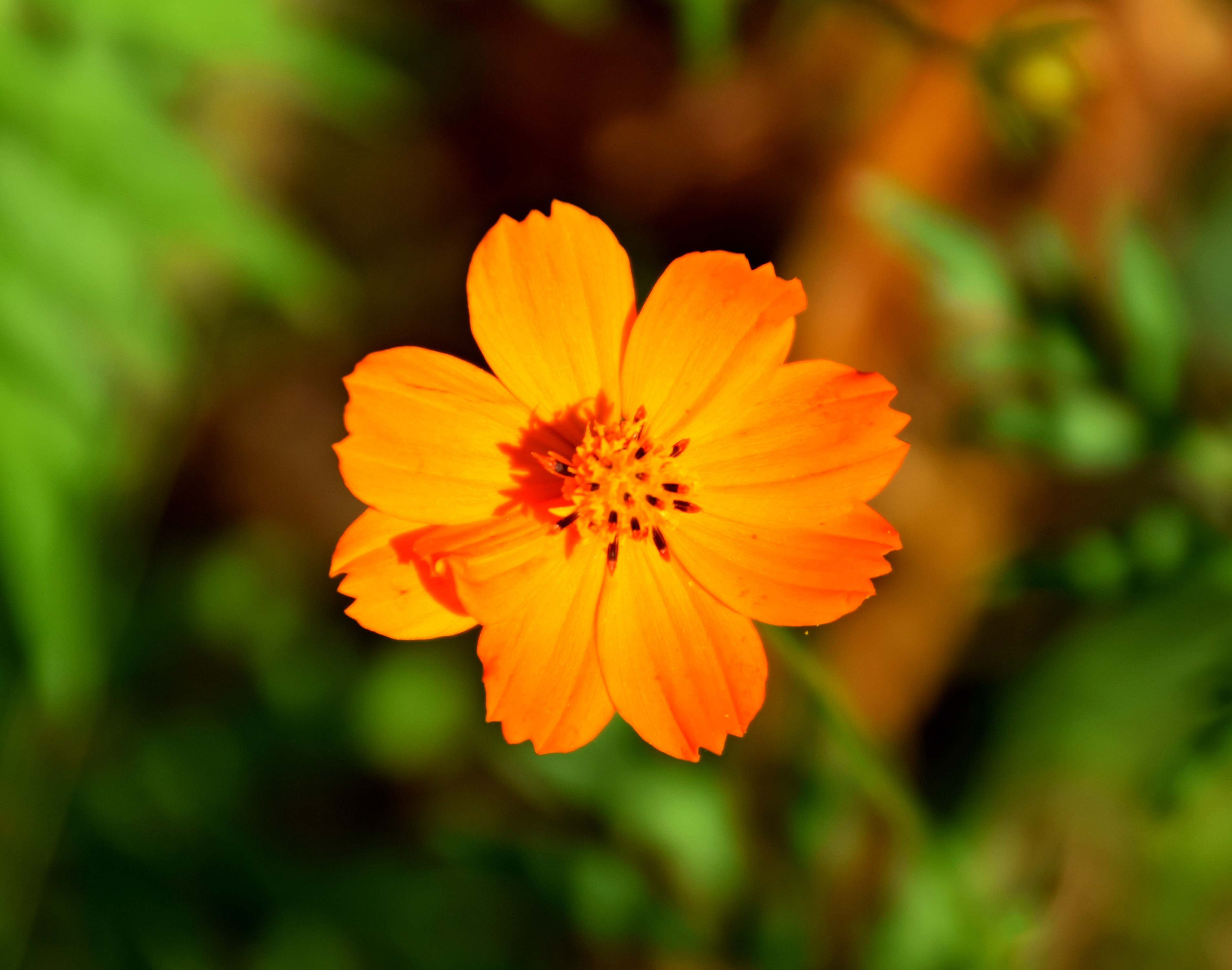 Cosmos sulphureus in Jardin des Plantes de Toulouse